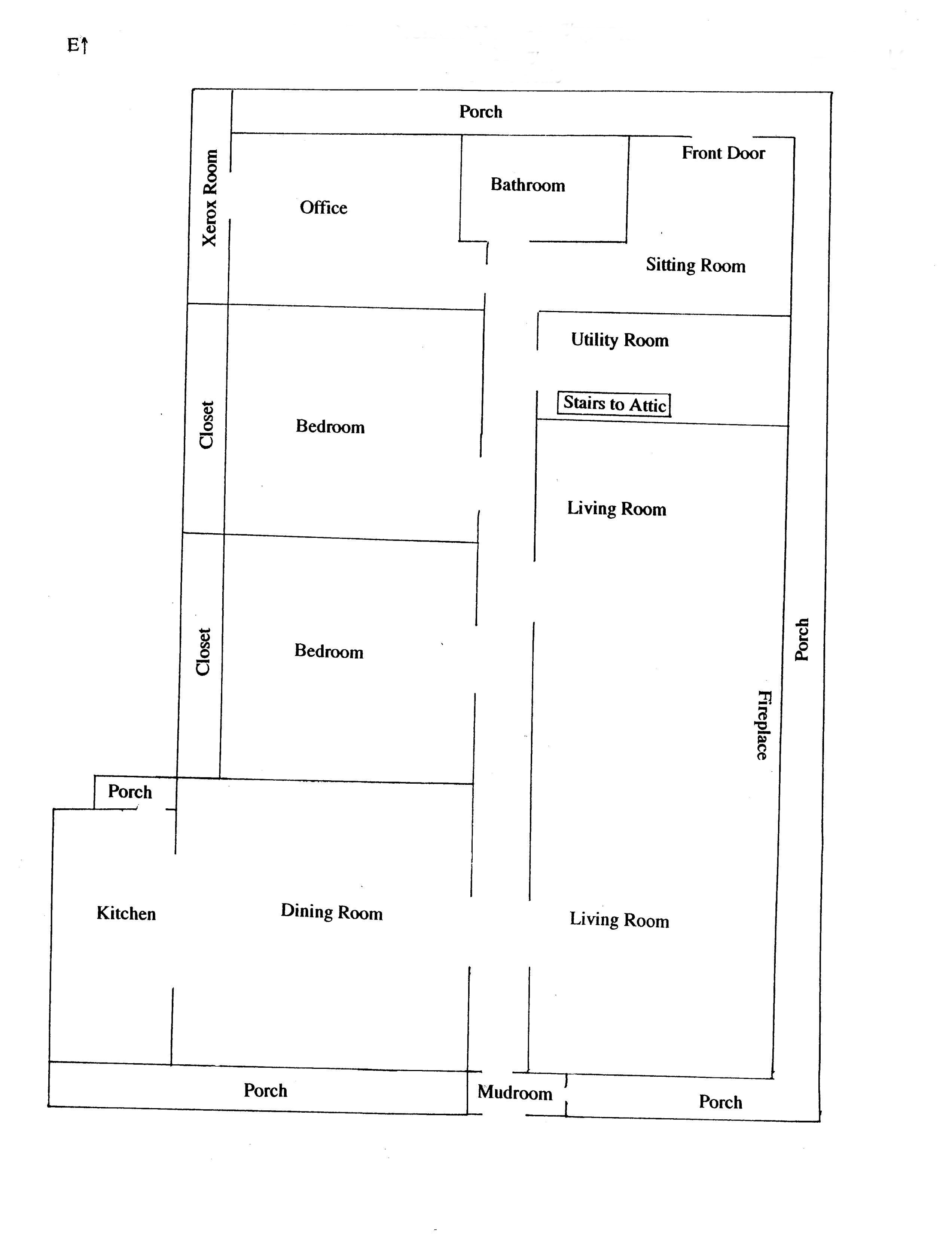 Floor plan of the friary in the Chinle Franciscan Mission Historic District